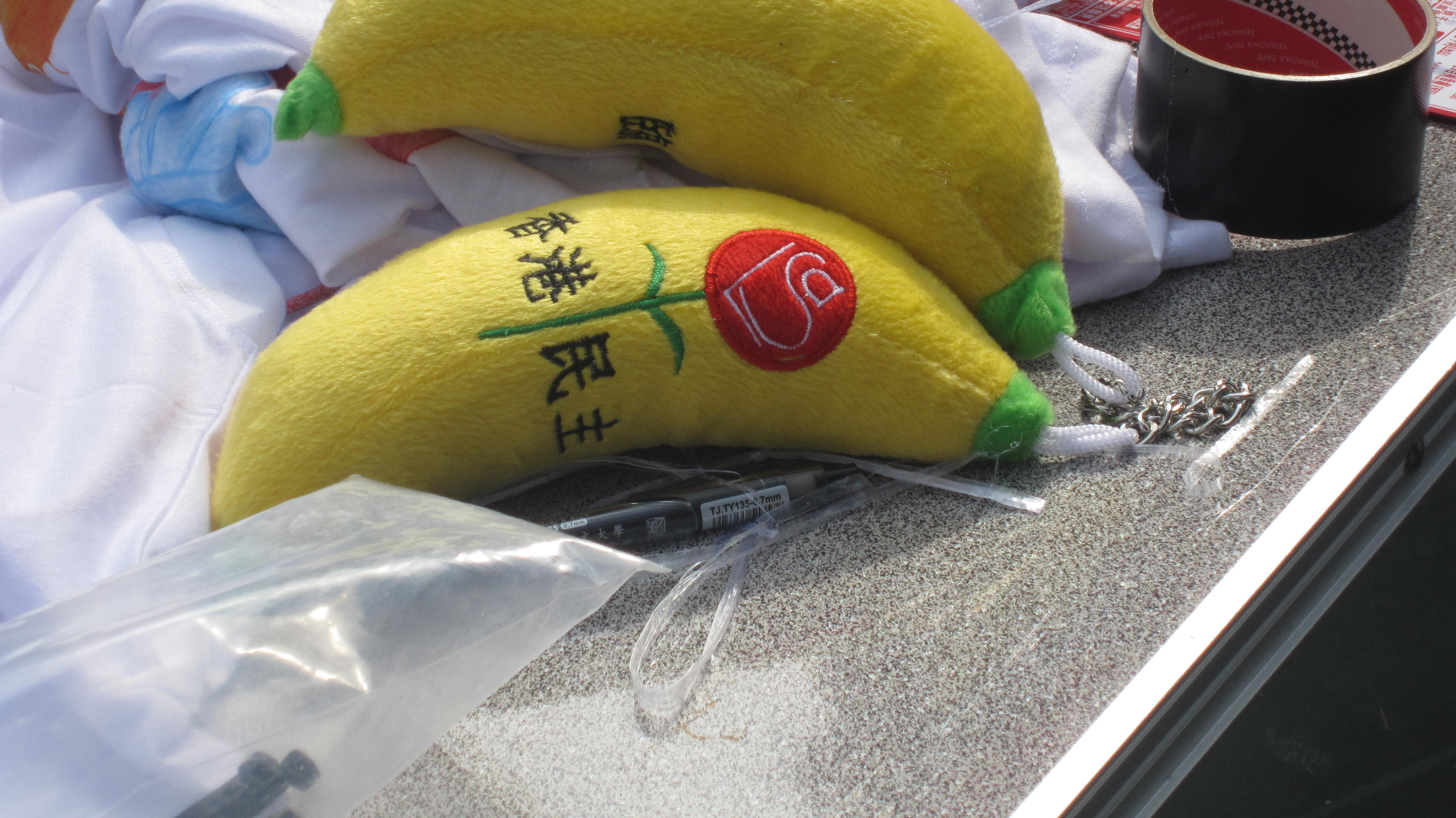 League of Social Democrats